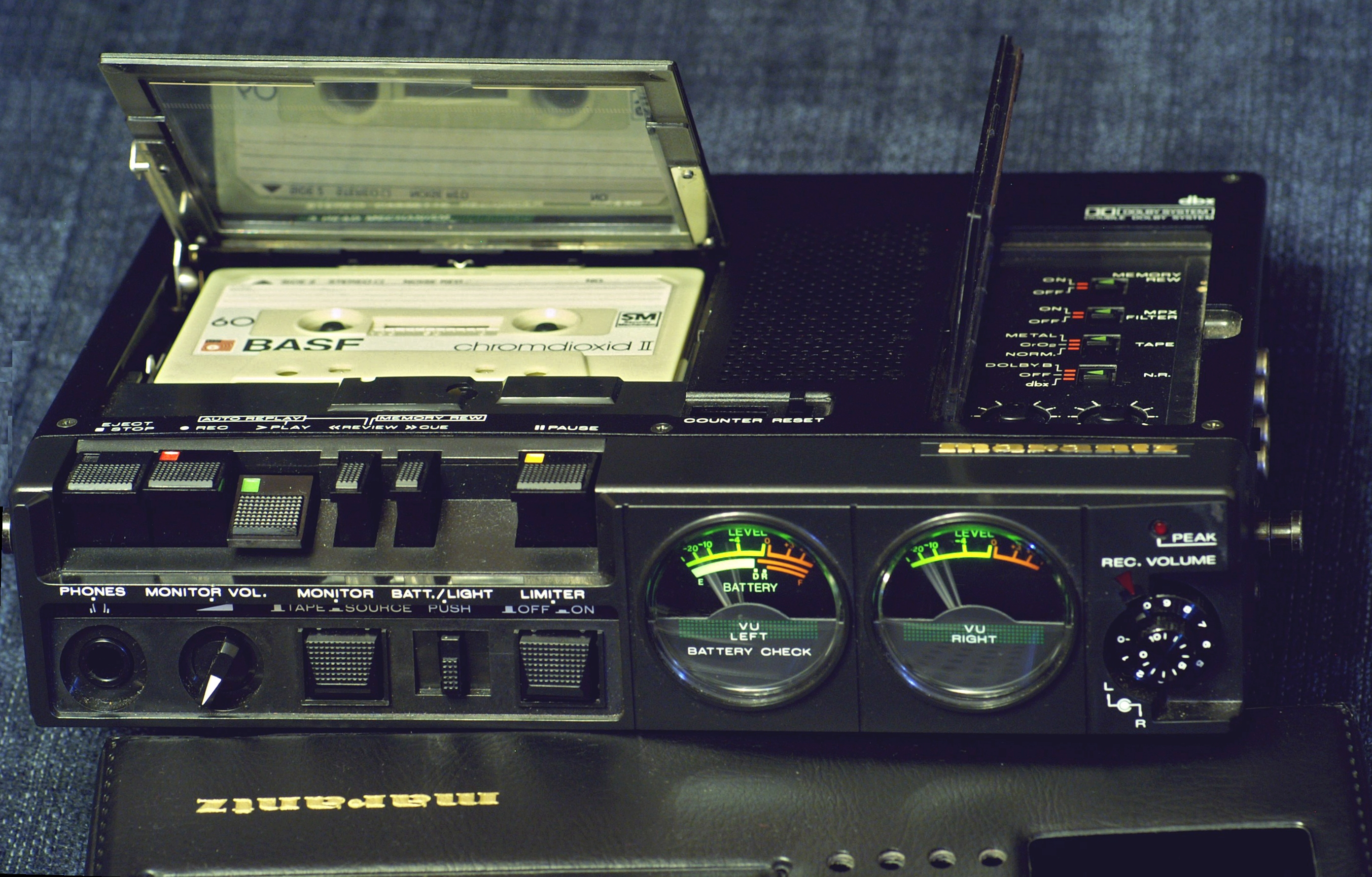 Thebiggestmac 08:17, 29 September 2006 (UTC),Marantz CP-430/PMD-430 3-head portable tape deck,made the photo myself